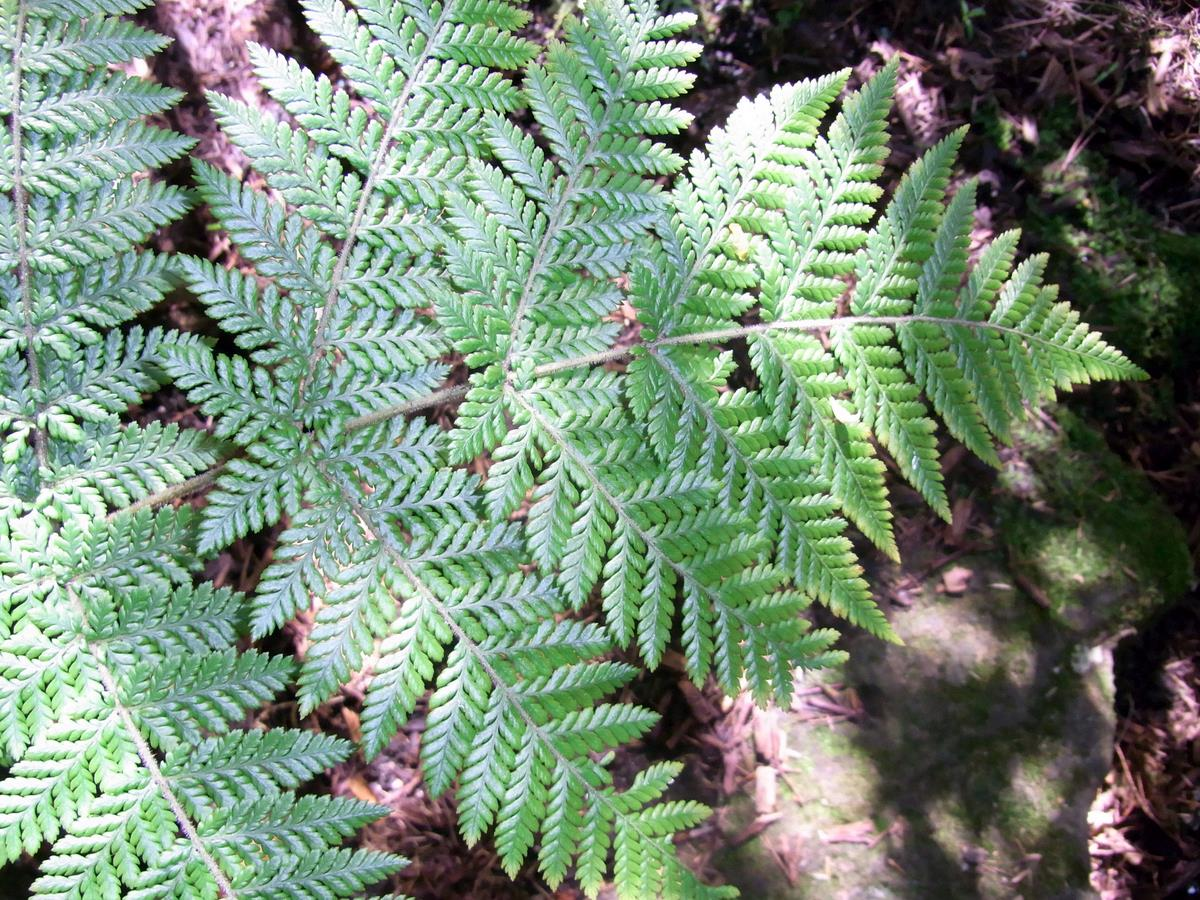 Lastreopsis silvestris, labelled at the Royal Botanic Gardens, Sydney